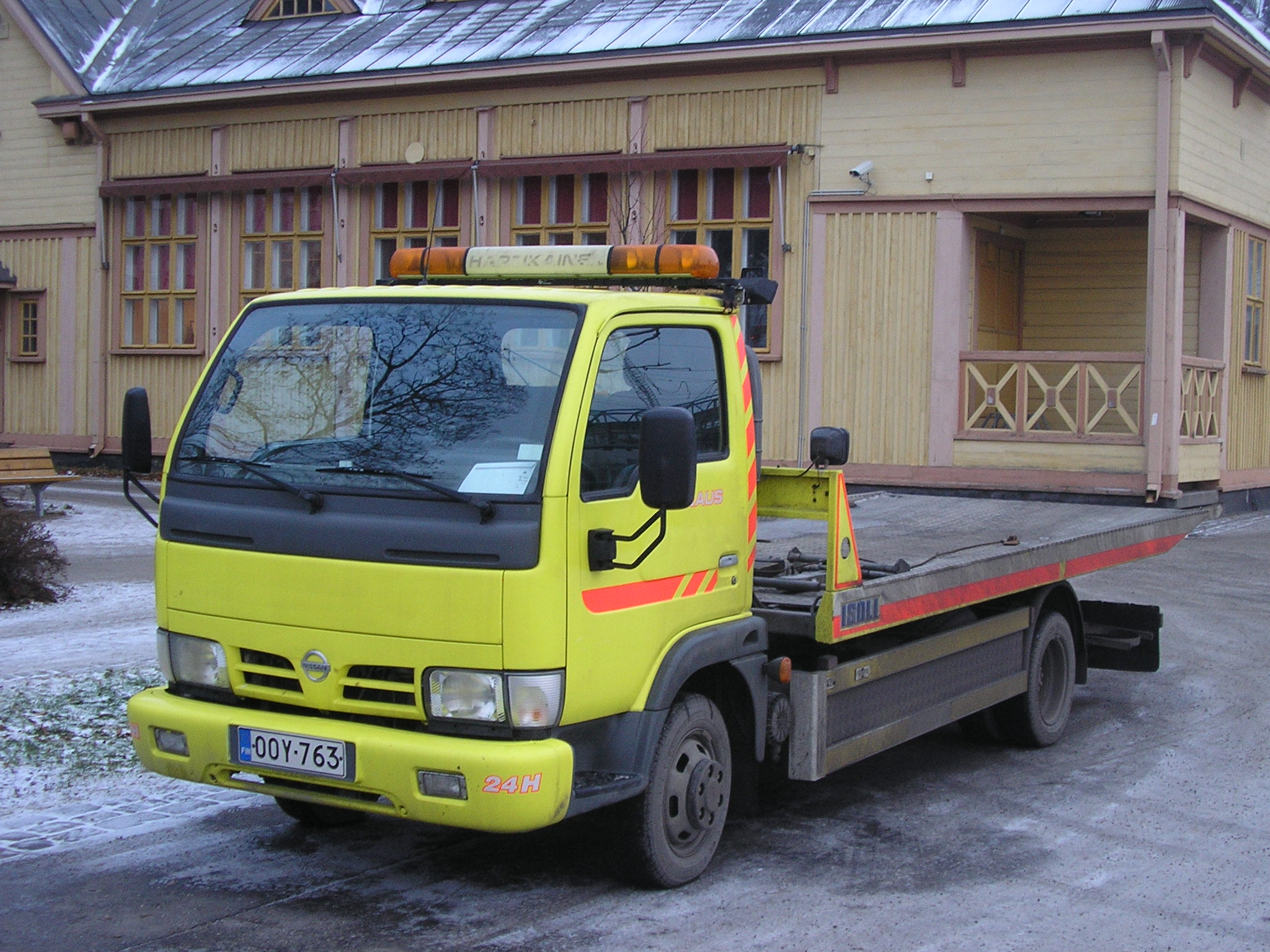 Nissan tow truck in Jyväskylä, Finland